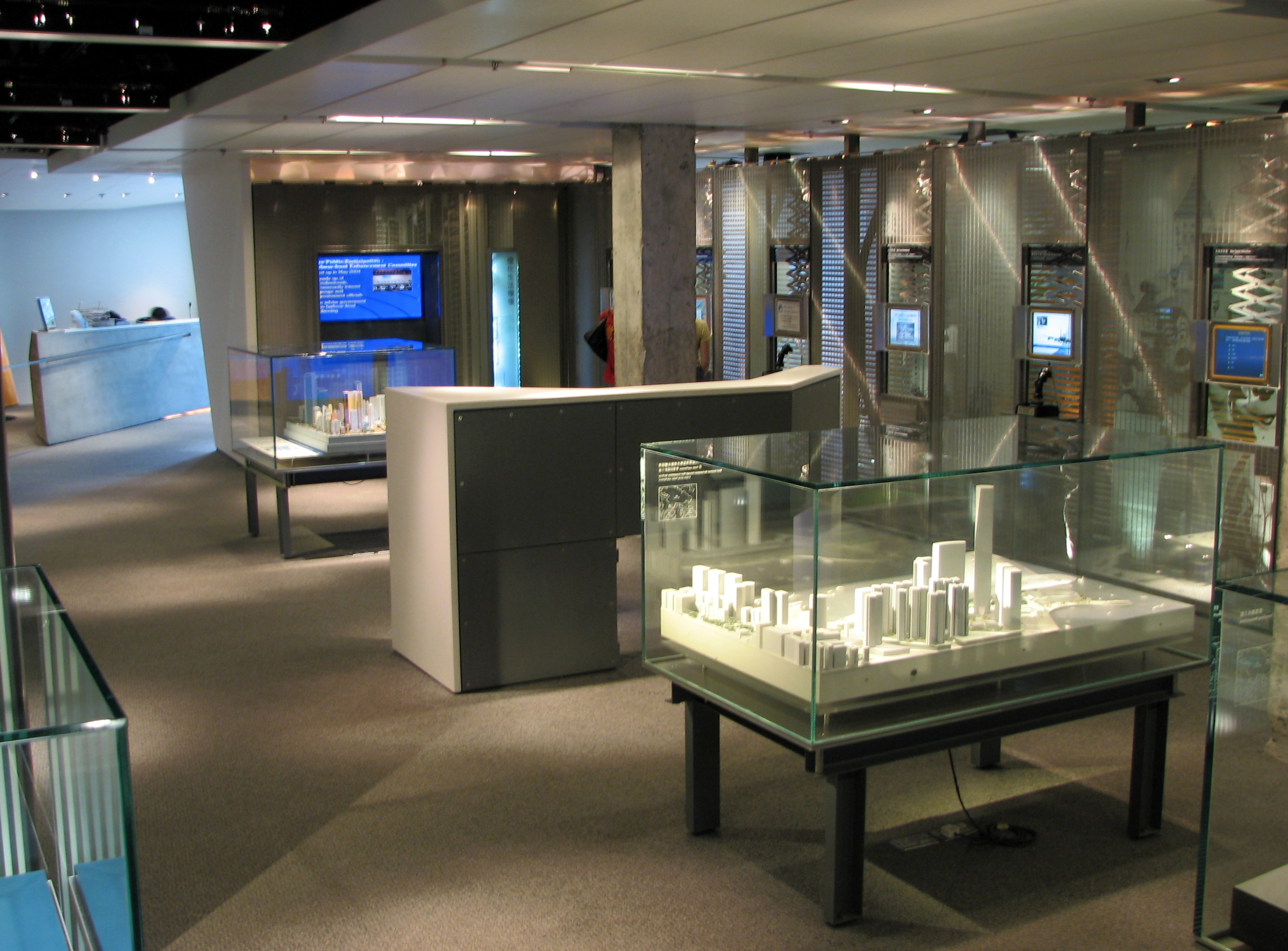 Hong Kong Infrastructure Experience Exhibition GalleryHong Kong Infrastructure Experience Exhibition Gallery